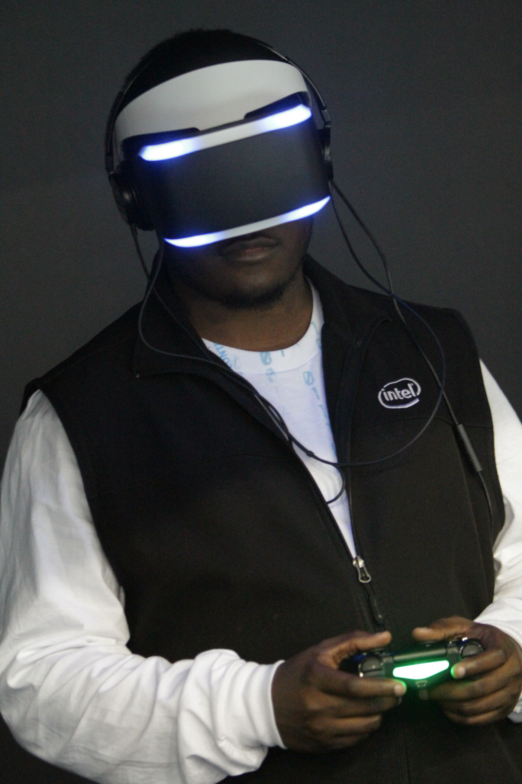 A man demoes Sony's Project Morpheus (later named PlayStation VR) at the 2014 Game Developers Conference.